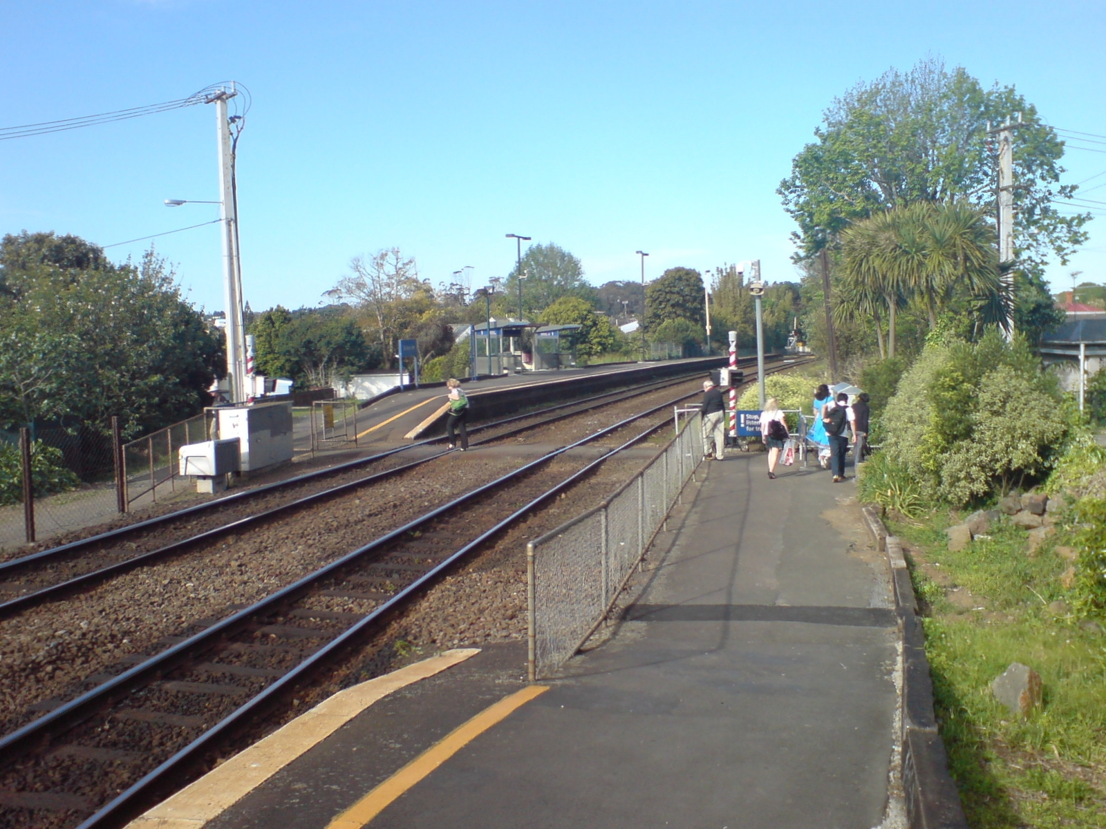 The current (late 2010) Baldwin Avenue Train Station in Auckland, New Zealand. Currently (late 2010), this station is closed and being upgraded and lengthened for the longer trains.